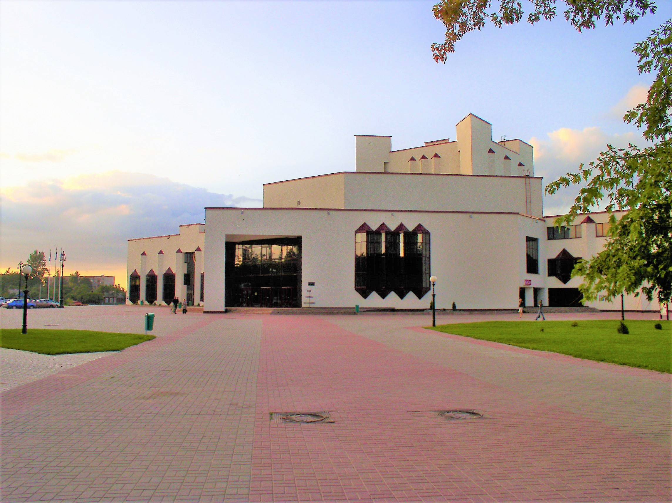 Palace of Culture in Maladzechna, Belarus